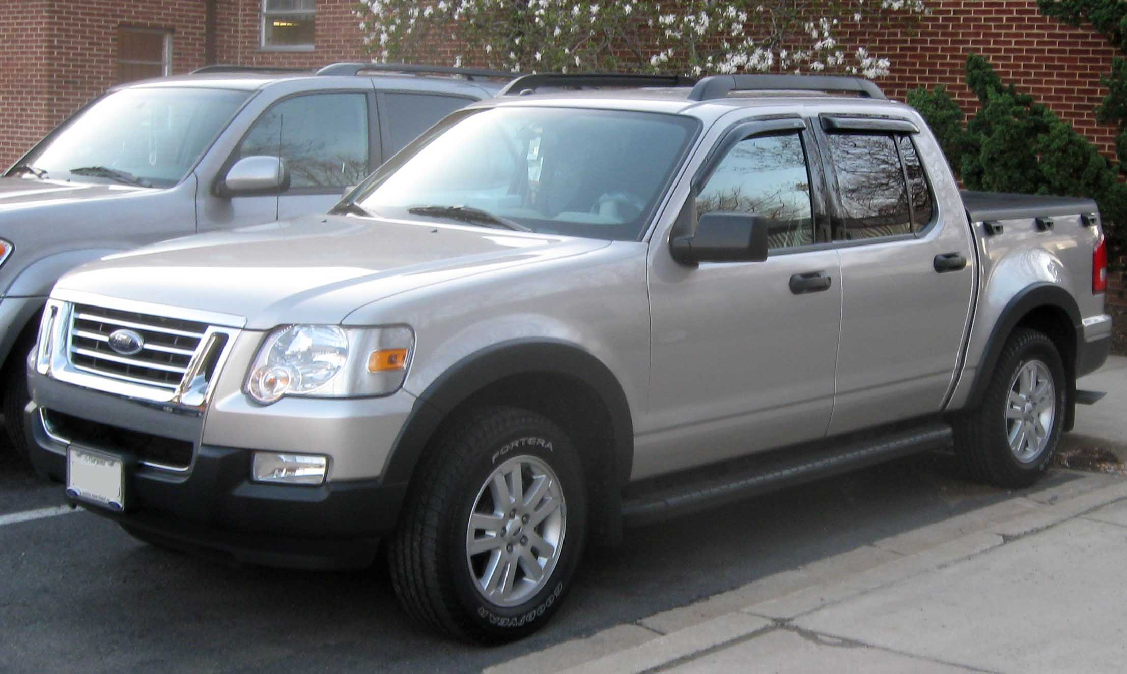 2007-2009 Ford Sport Trac photographed in College Park, Maryland, USA.